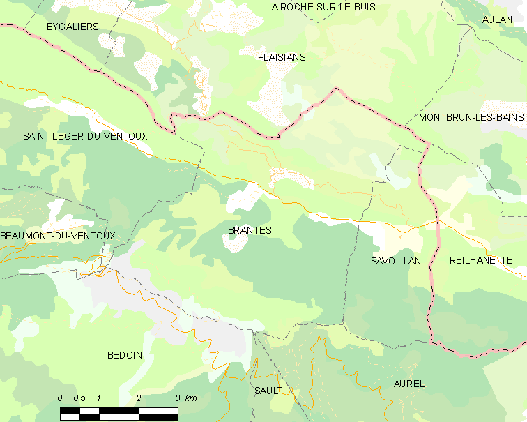 Map of French municipality Brantes